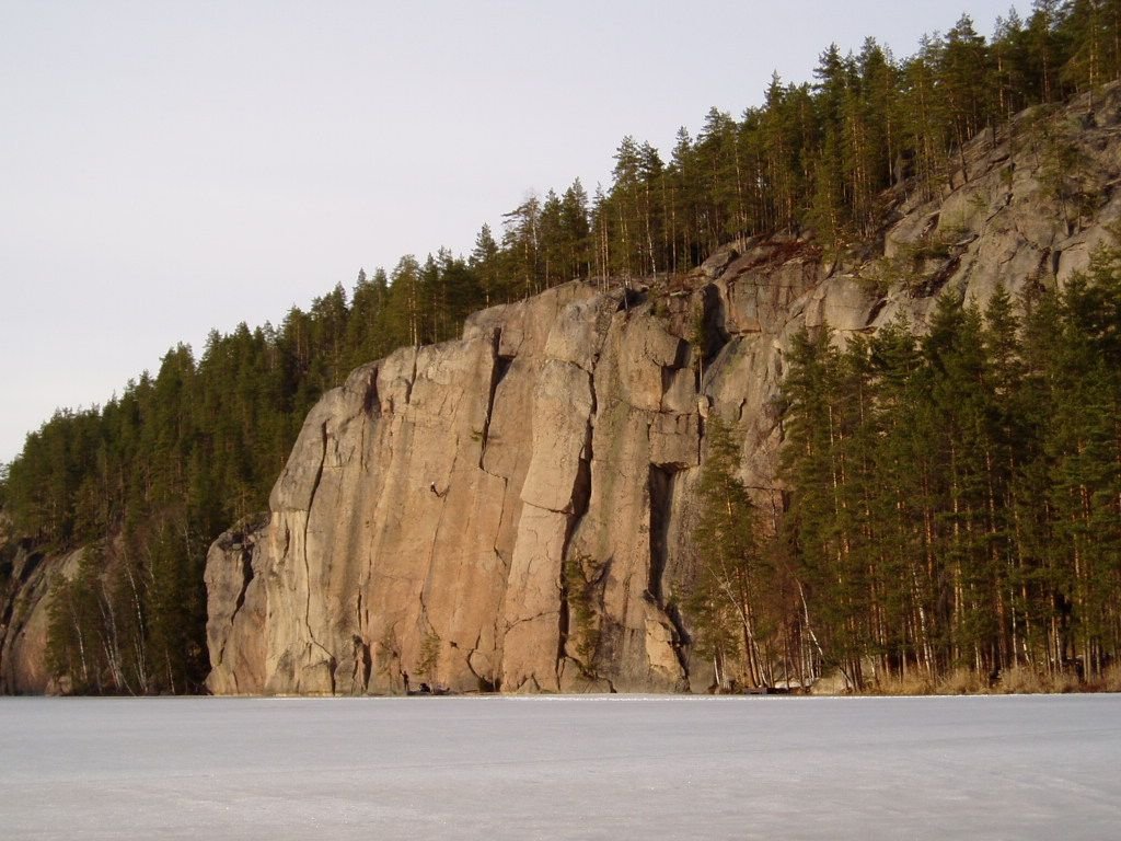 Repovesi Nationalpark photograph by Ohto Kokko.